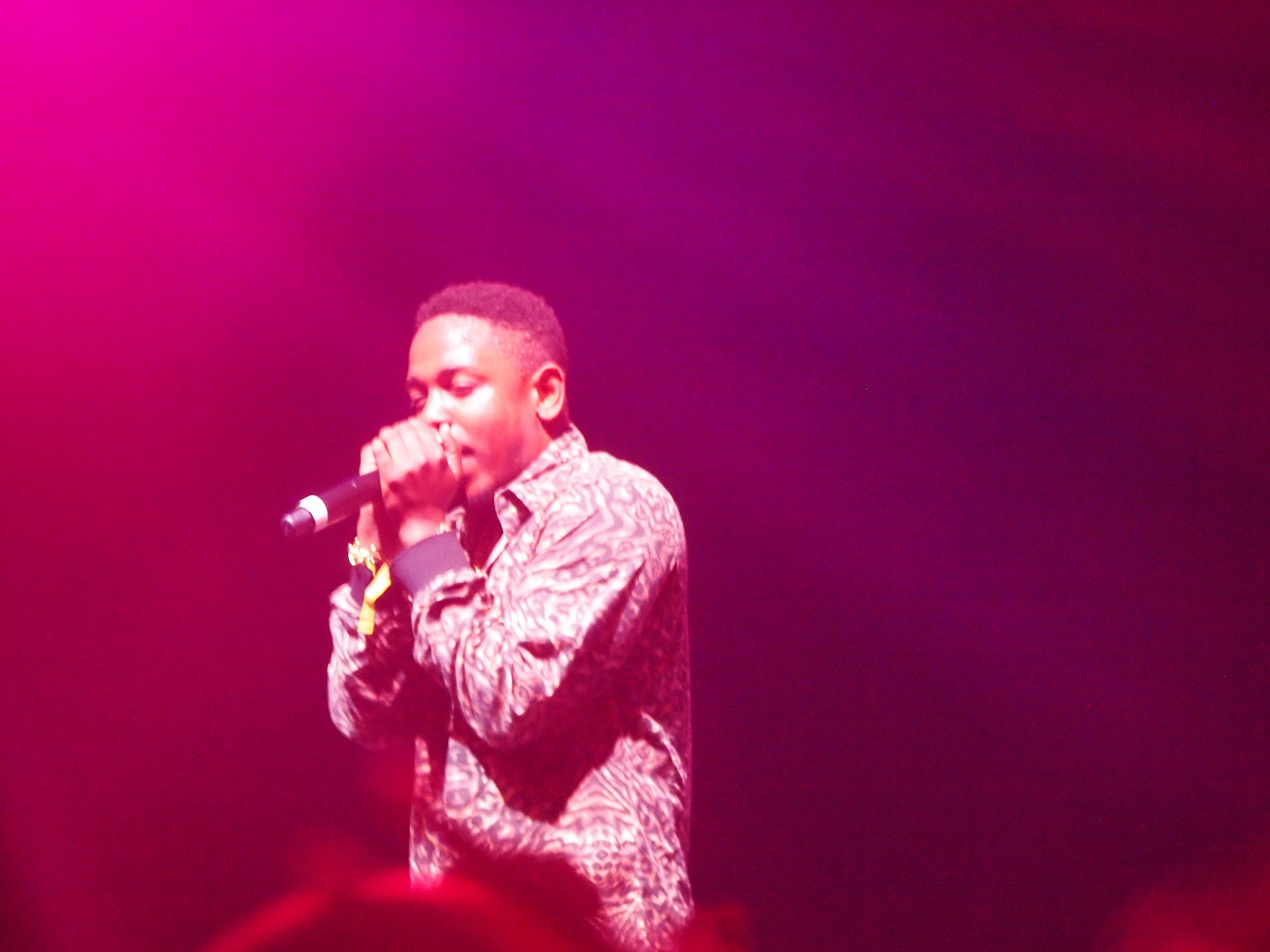 Kendrick Lamar performs Thursday night at Bonnaroo in Manchester, Tennessee.